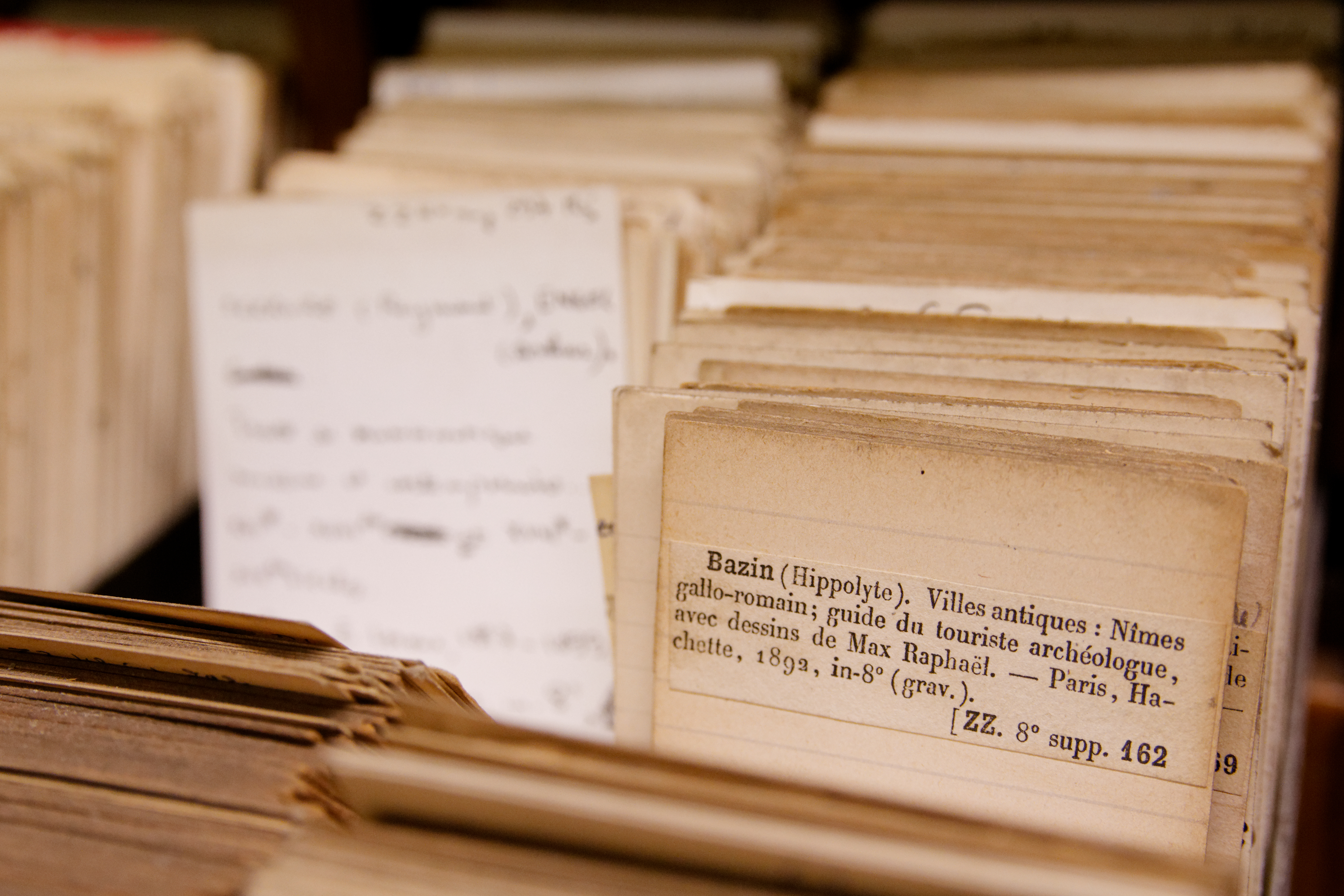 Card file cabinet, restricted section, Bibliothèque Sainte-Geneviève, Paris.